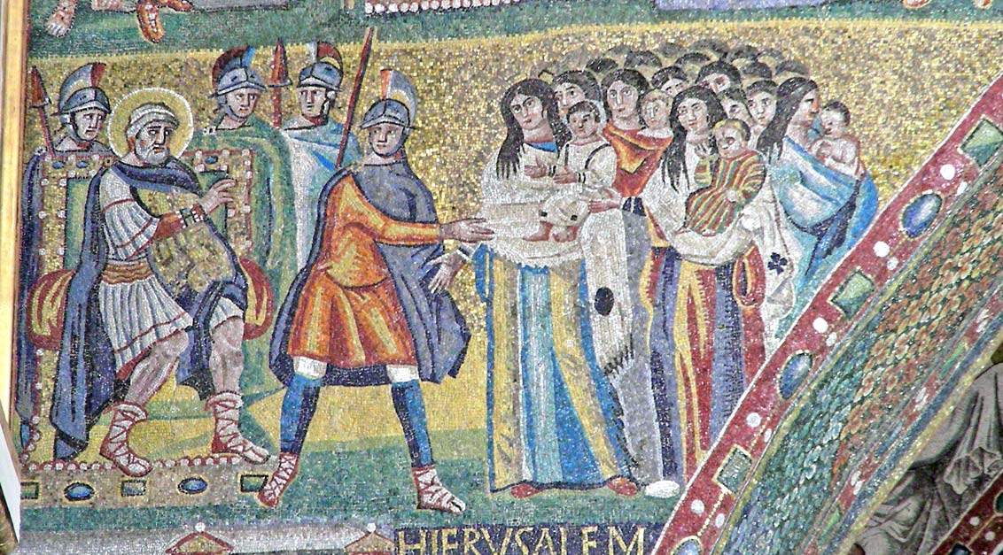 Triomphal Arch Mosaics in the Basilica of Santa Maria Maggiore in Rome, left side, third register from up